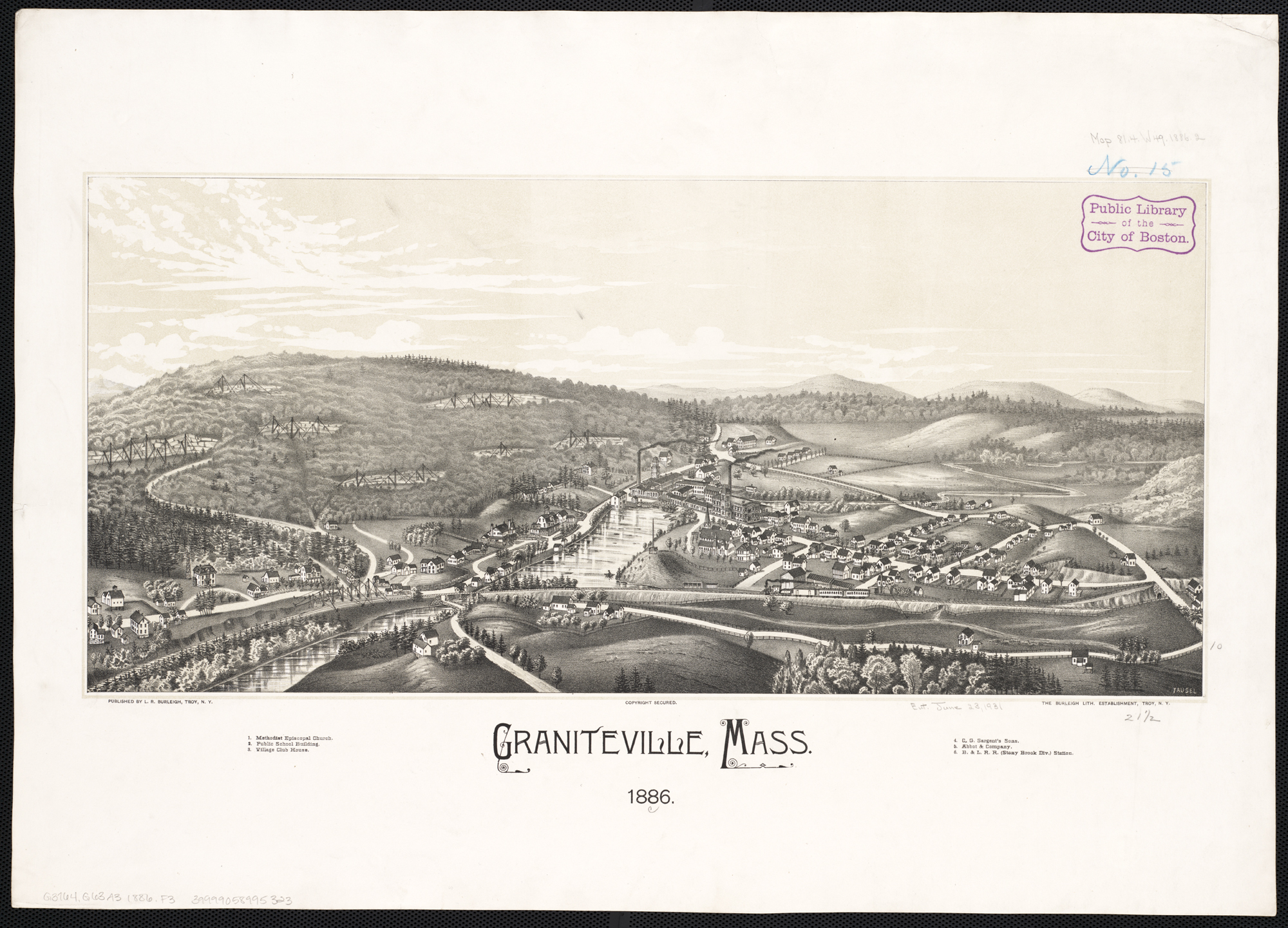 Zoom into this map at . Author: Fausel, C. Publisher: L.R. Burleigh Date: [1886] Location: Graniteville (Mass.) Scale: Not drawn to scale Call Number: G3764.G63A3 1886.F3